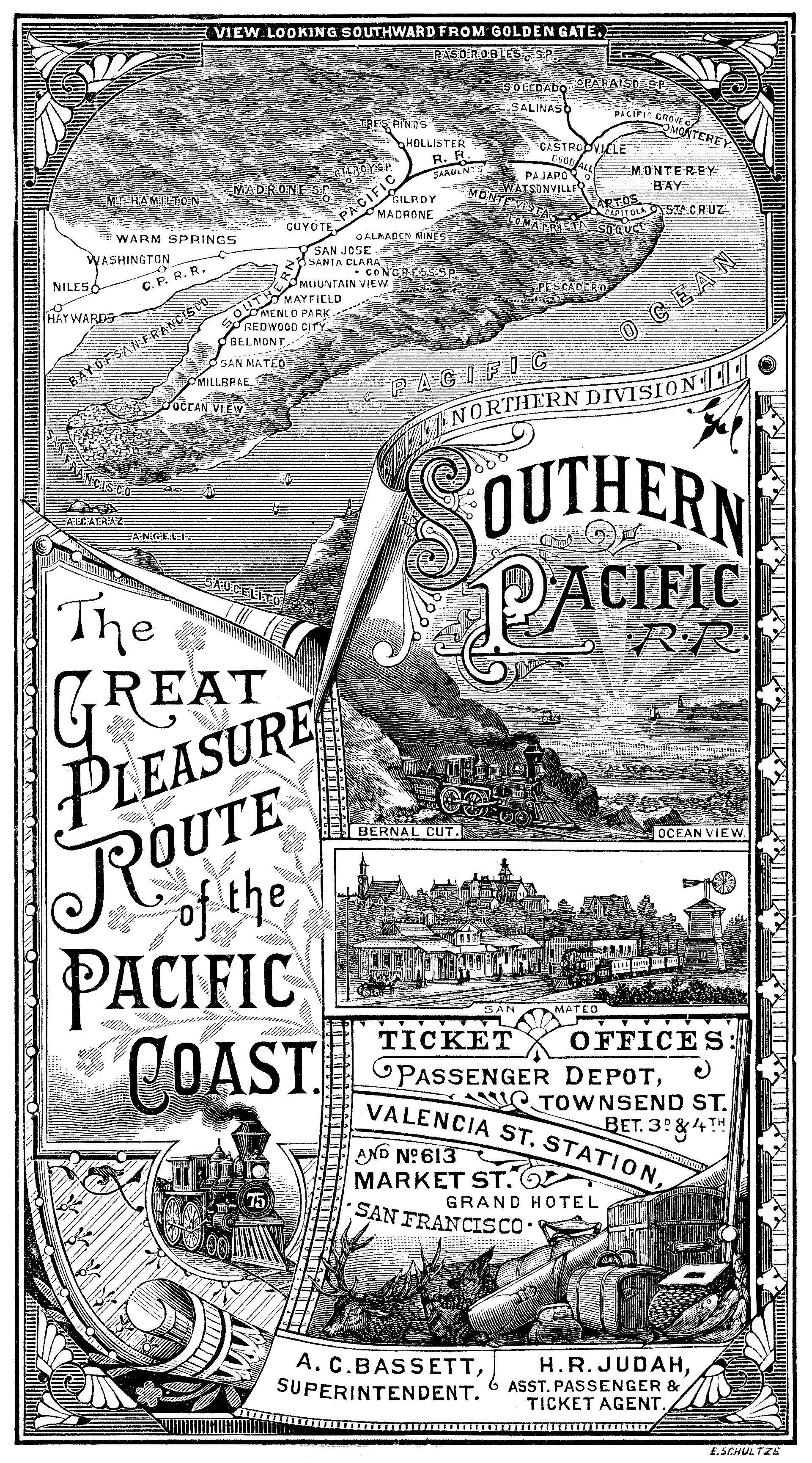 "The Great Pleasure Routes of the Pacific Coast", Southern Pacific Railroad, Northern Division 1885.